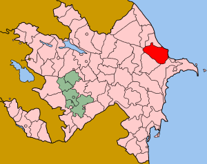 Map of Azerbaijan showing Khizi (Xızı) rayon.